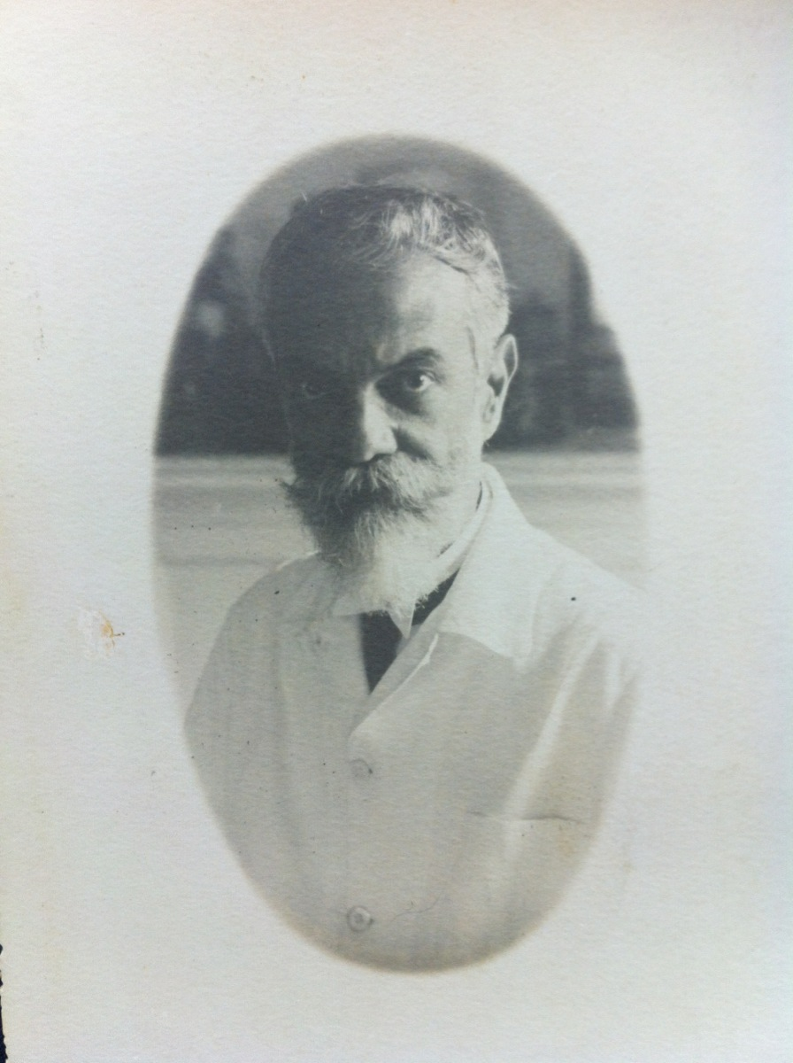 Photo of Alipio de Miranda Ribeiro, brazilian natural scientist